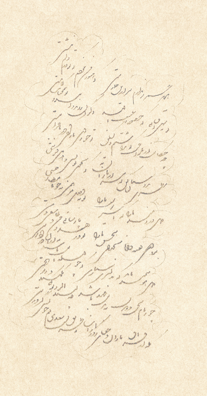 Persian Calligraphy, Shekaste